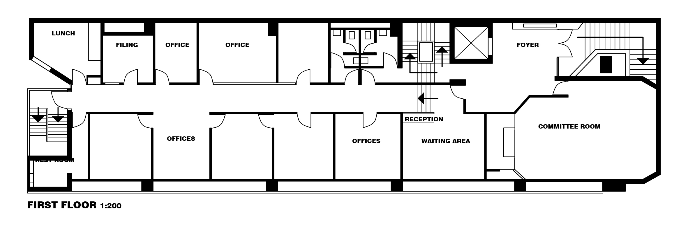 plan of Graeme Gunn's Plumbers & Gasfitters Employees' Union Building